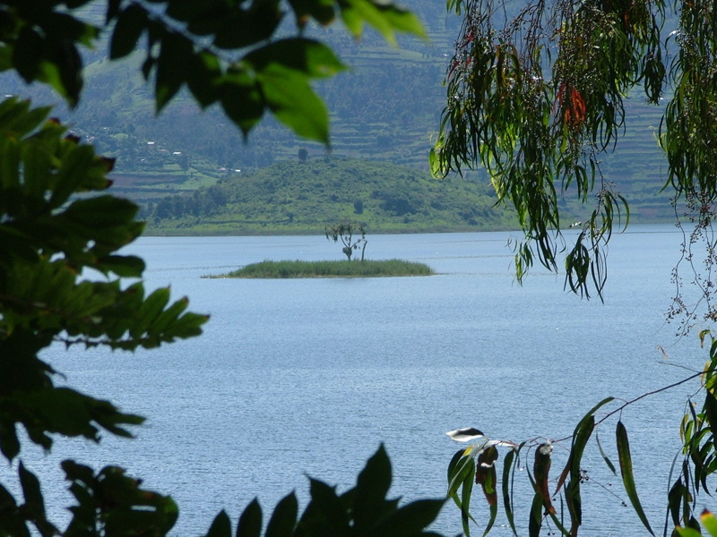 (Punishment_Island,own work,11/28/04,Edirisa)